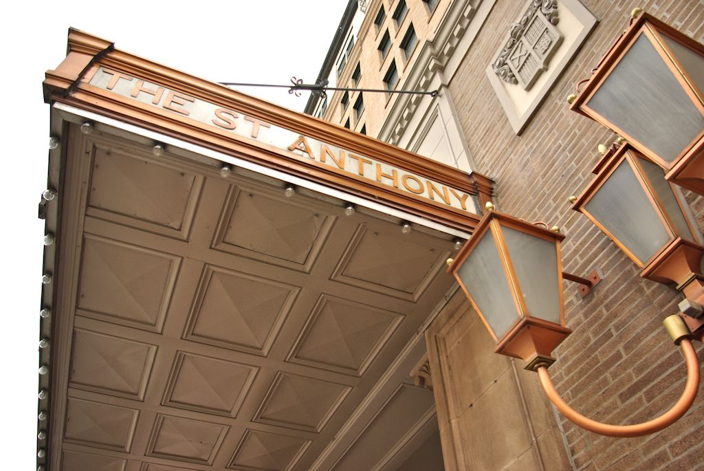 The St Anthony Hotel in San Antonio, Texas.